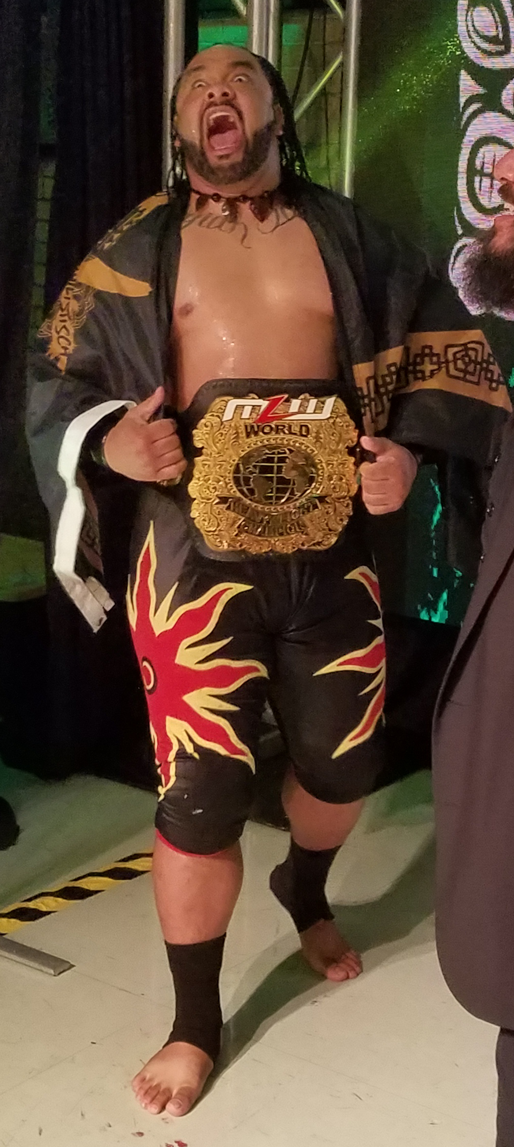 Jacob Fatu with the MLW World Heavyweight Title entering the ring prior to his defense against LA Park at Saturday Night SuperFight 2019 on November 2, 2019 at Cicero Stadium in Cicero, Illinois